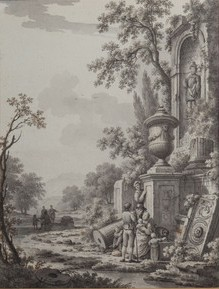 Classical Landscape with Figures dancing before a Ruin, brown ink drawing with grey wash.